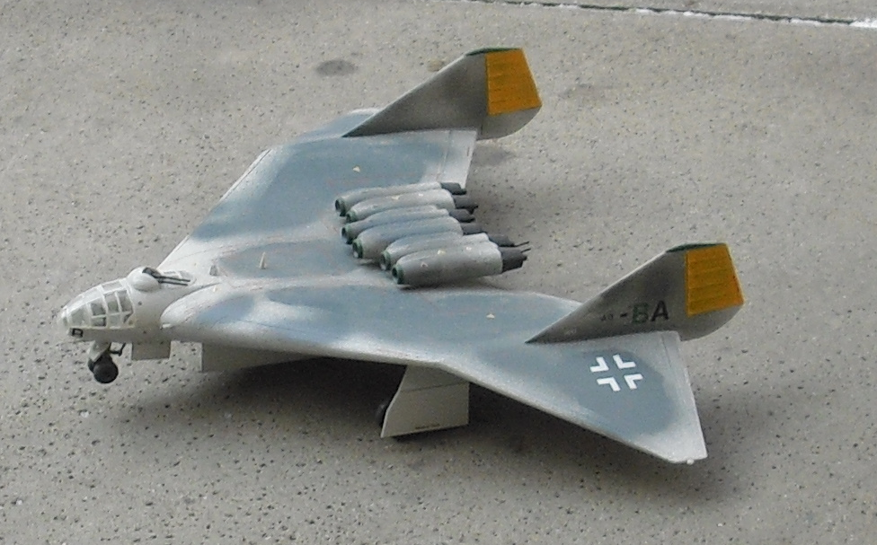 Model picture of an Arado E.555